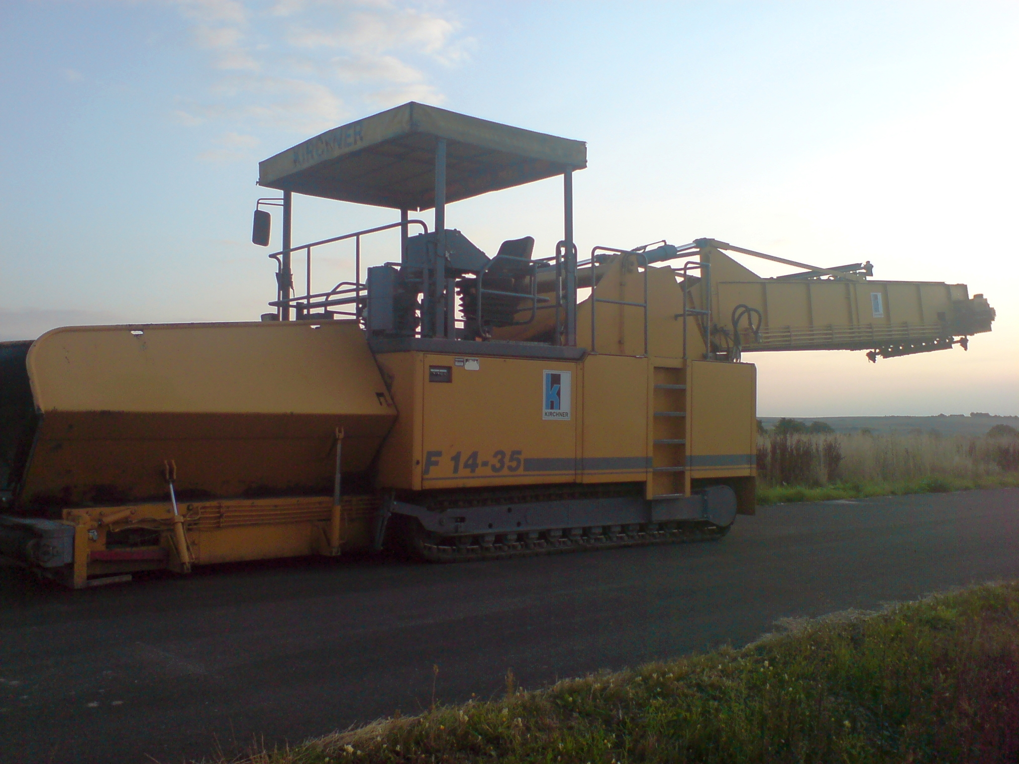 Mobile Feeders from the german Kirchner Holding GmbH.